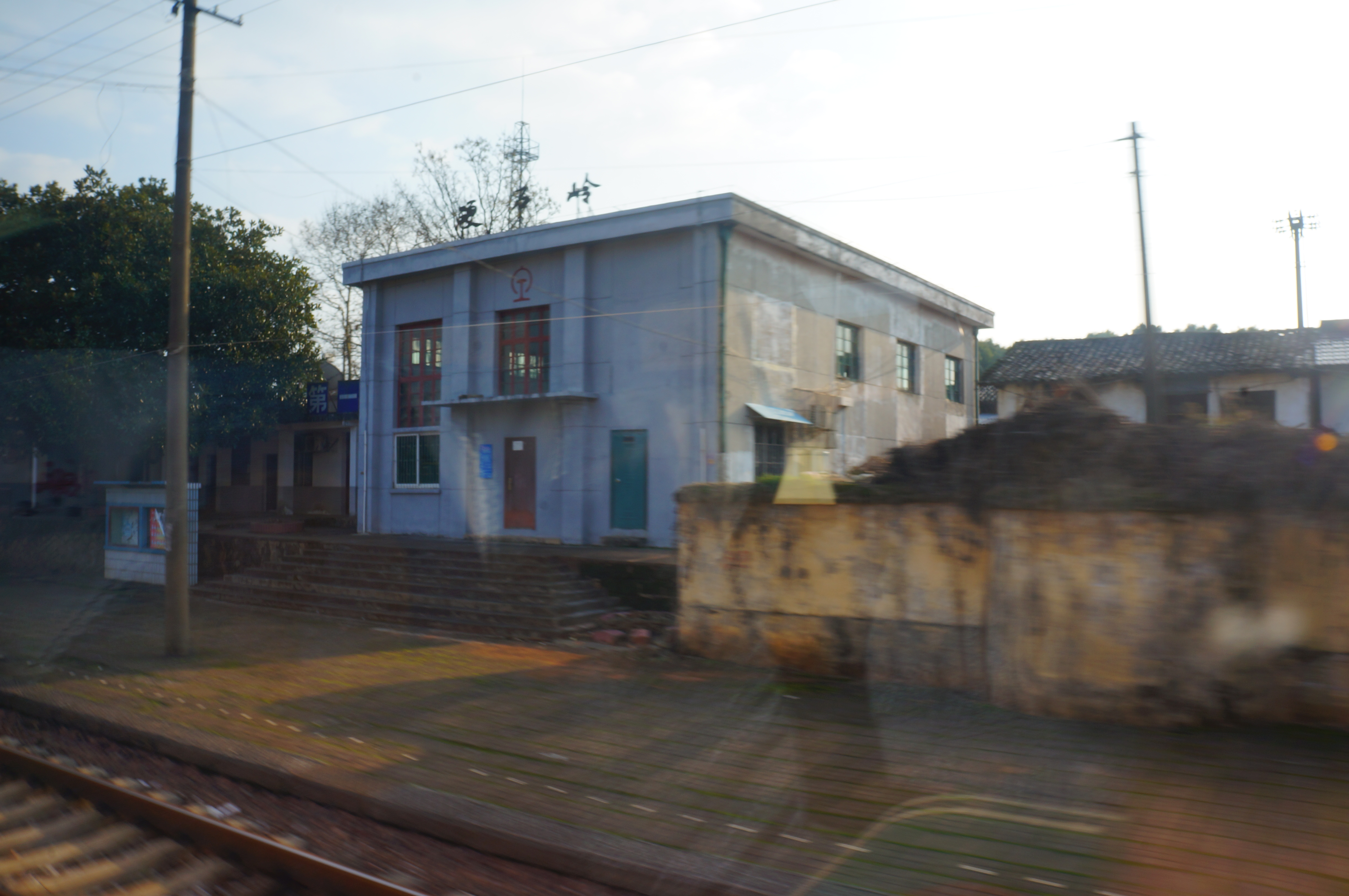 201612 Yingshiling Station